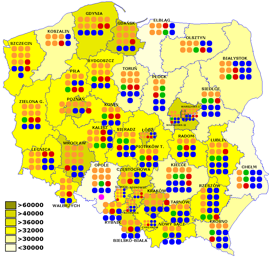 Polish parliamentary election, 2007 - Number of seats taken by constituenciesNumber of active voters per 1 seat